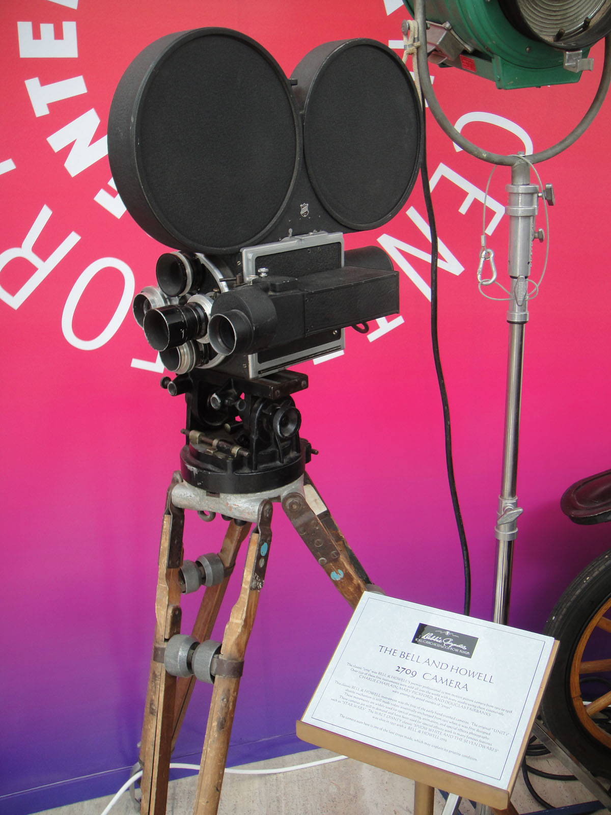 Bell & Howell 2709 camera at the Debbie Reynolds Auction Breaks Up Historic Hollywood Collection (The Paley Center for Media in Beverly Hills, Los Angeles, CA, USA).